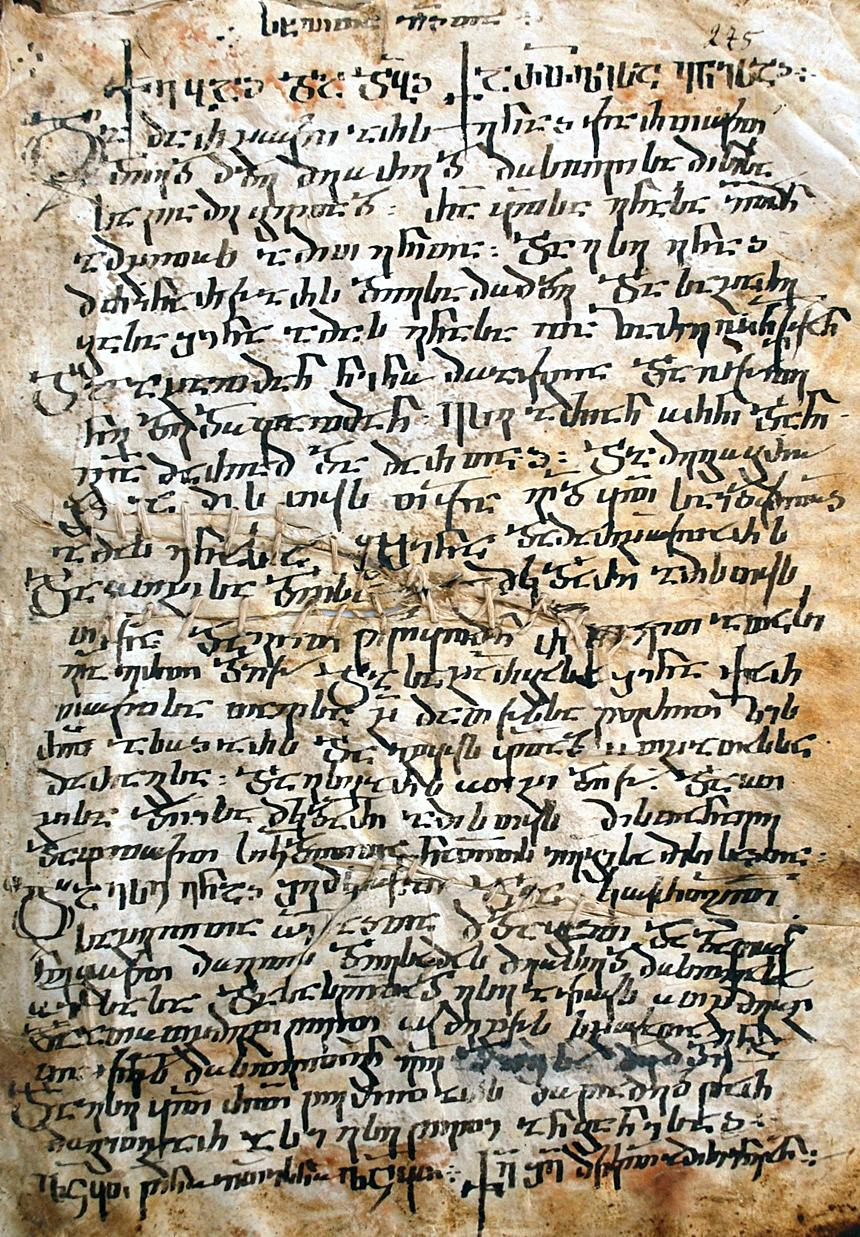 Praise and Glory of the Georgian language (Later addition page of the Sinai Polykephalon)